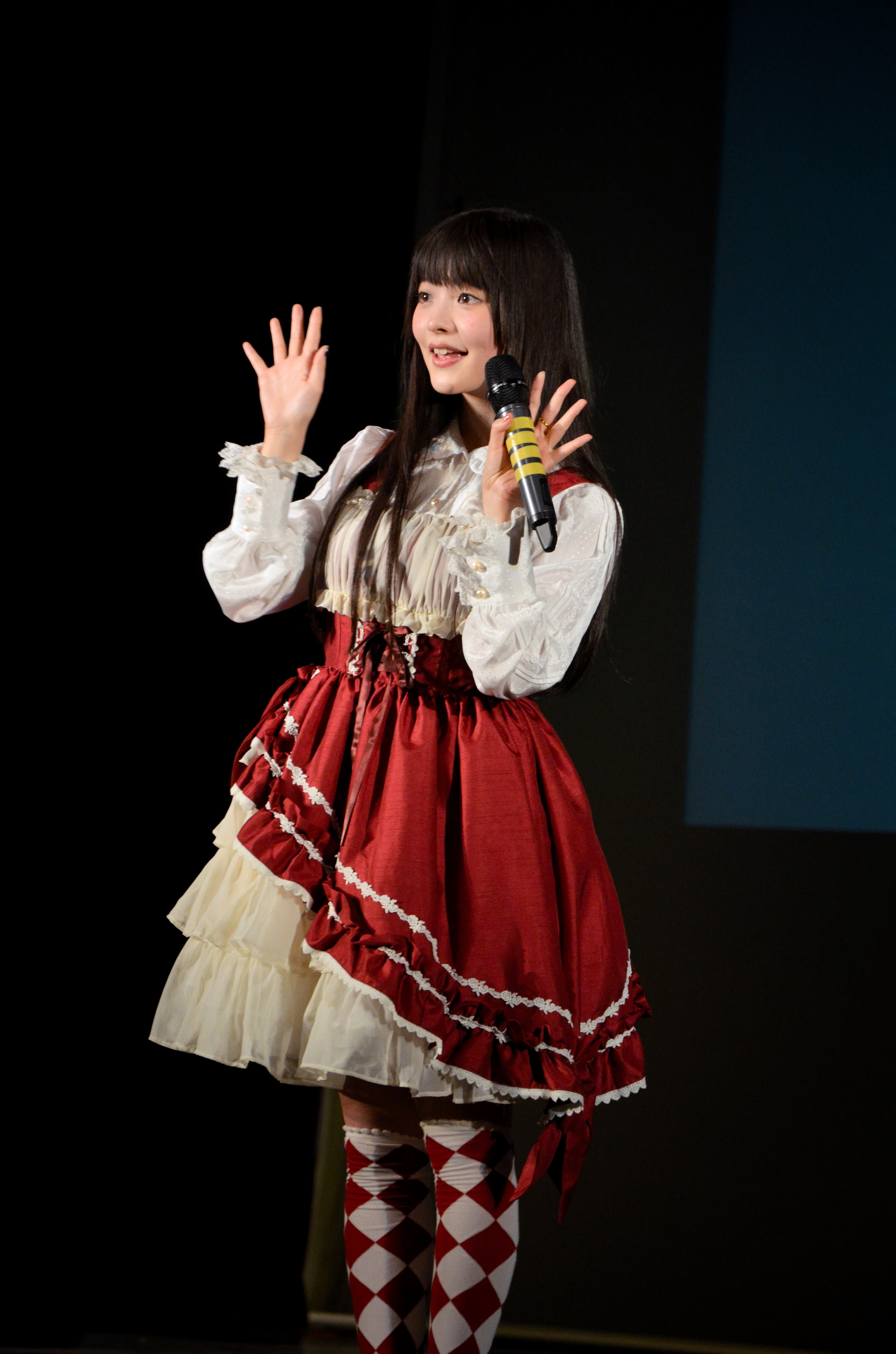 Sumire Uesaka at Anicon 2015.